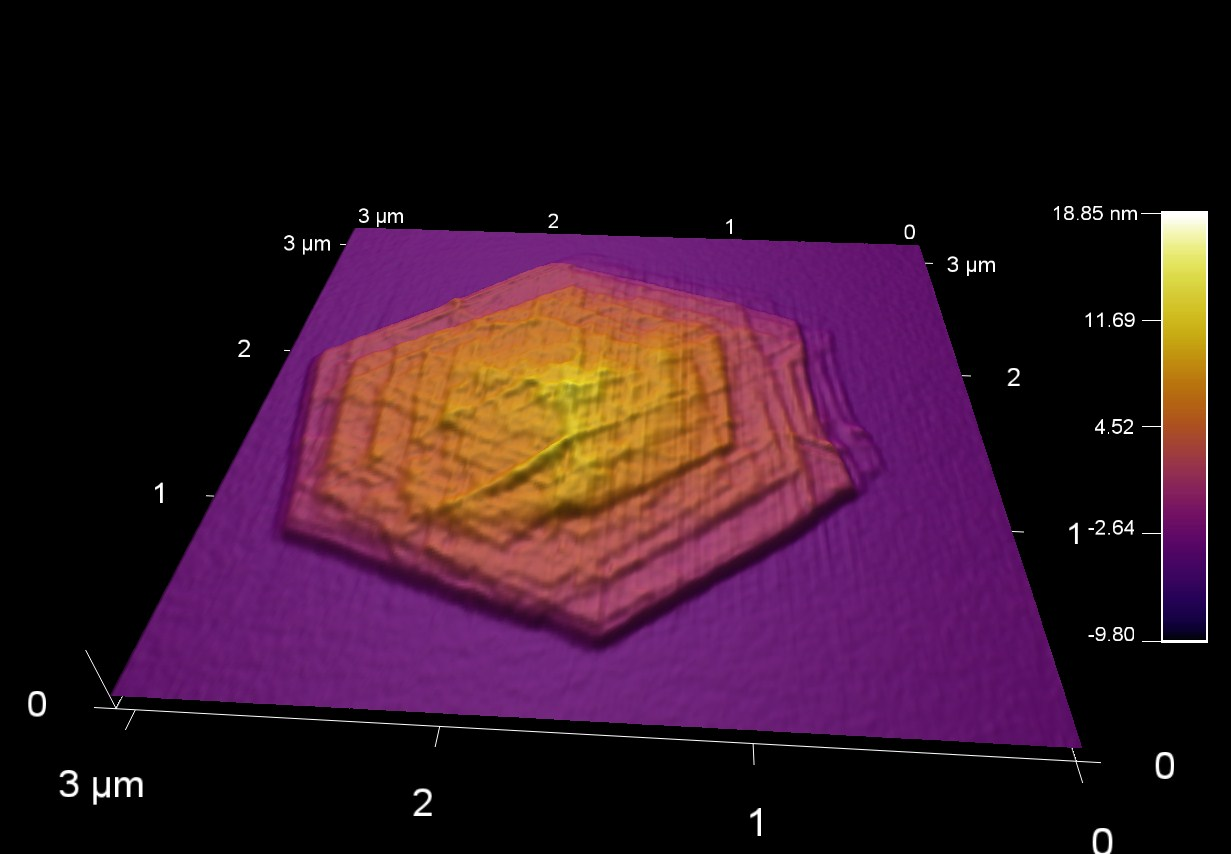 3D AFM tomography images of multilayered Palladium nanosheet on silicon wafer.